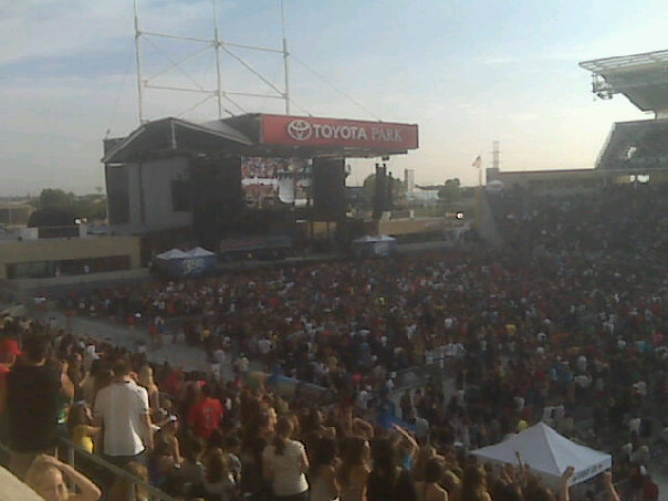 The stage at Chicago (Bridgeview), IL's Toyota Park during the Summer Bash 2010 concert.